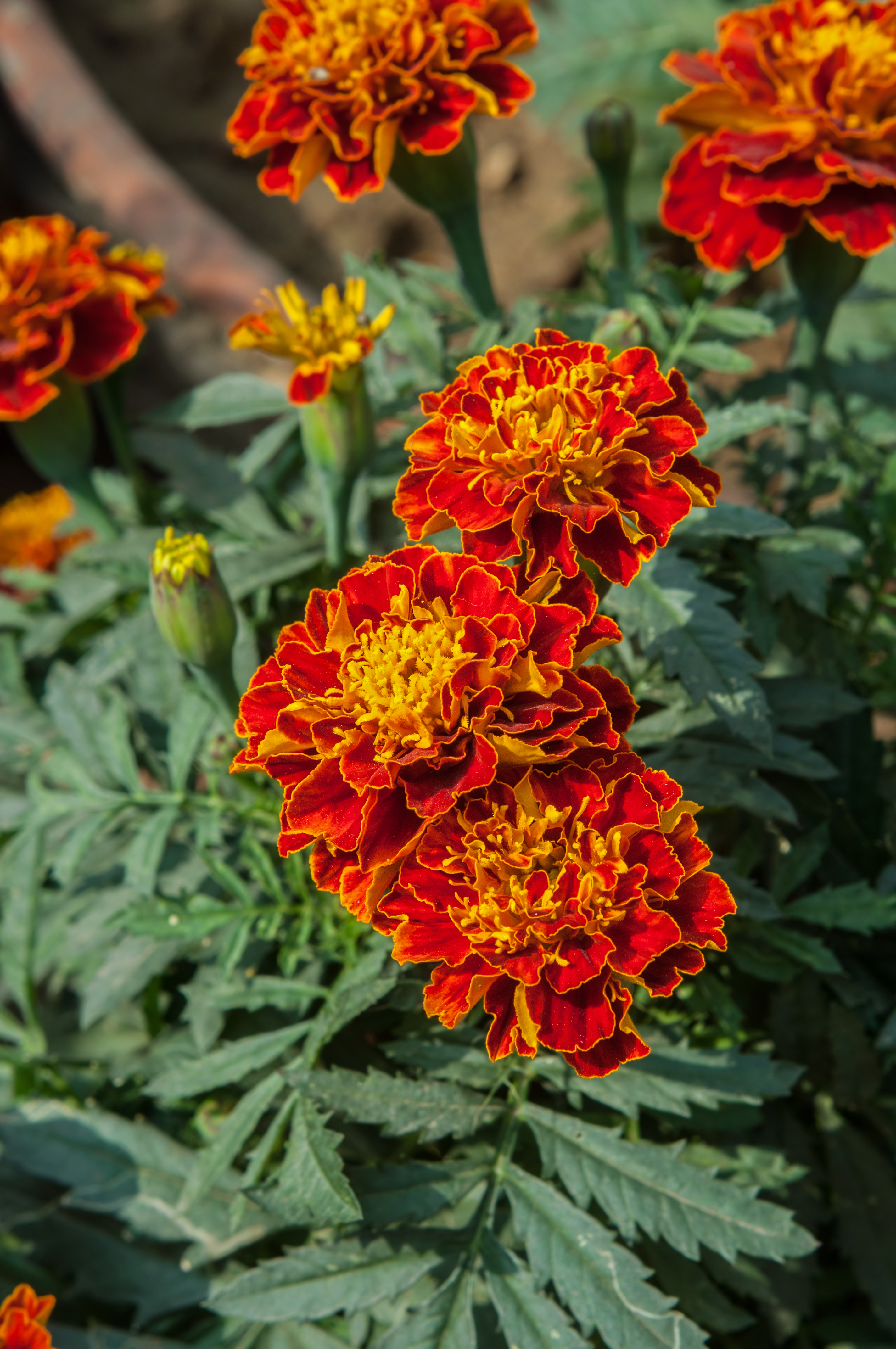 Red Tagetes patula.